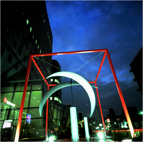 Banco Bradesco 1991 Branch